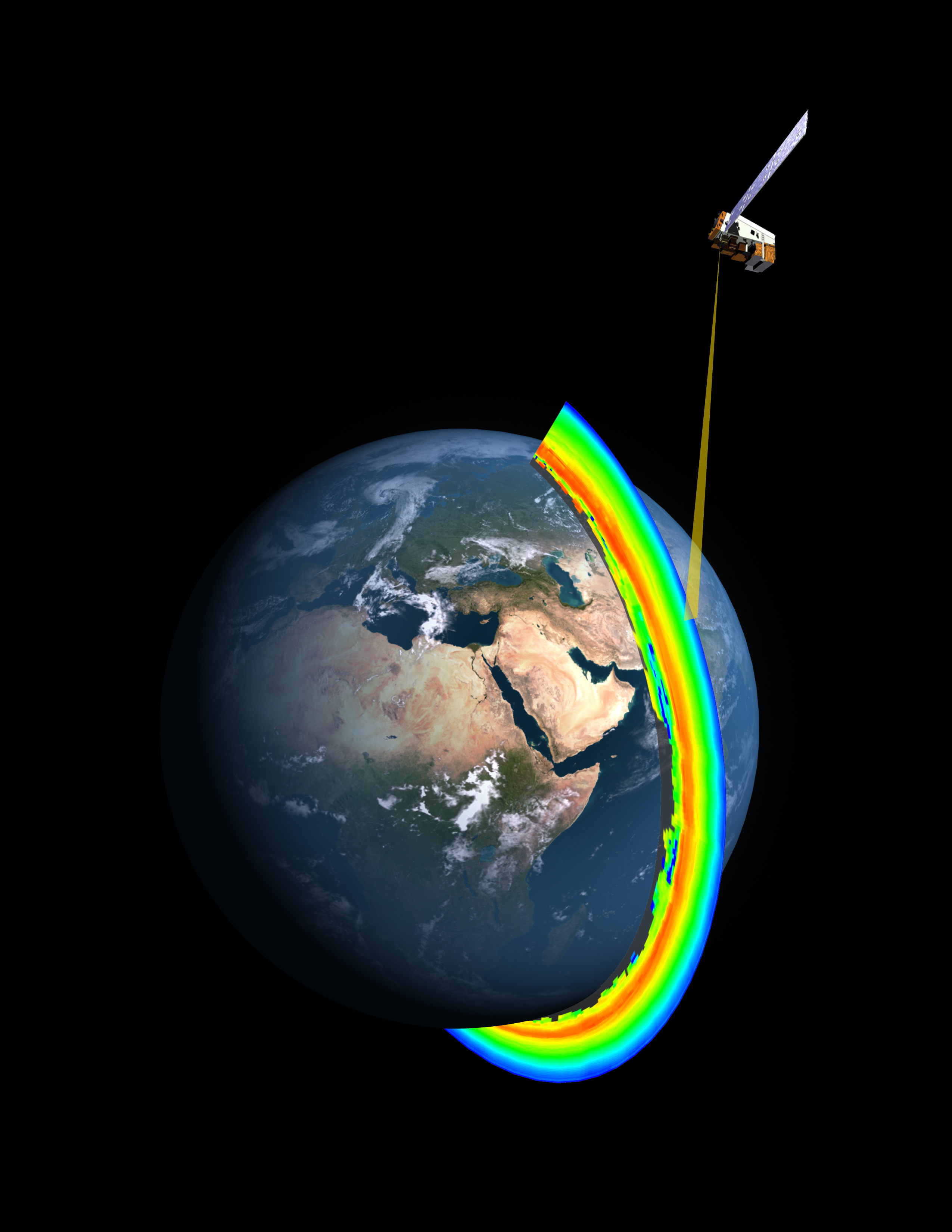 A cross-section of Earth's ozone layer as measured by the limb profiler, part of the Ozone Mapper Profiler Suite that's aboard the Suomi NPP satellite.